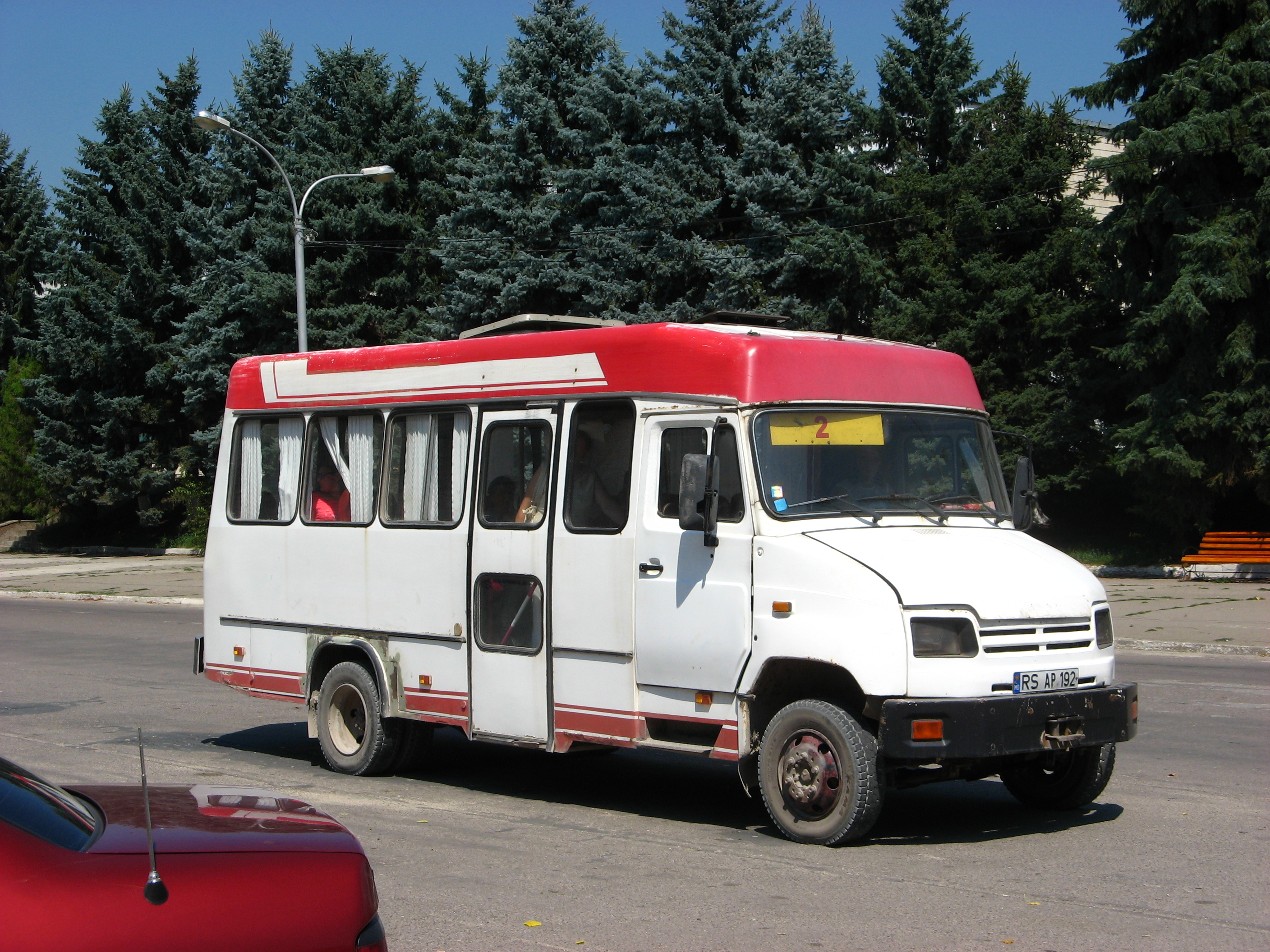 A KAvZ-3244, minibus based on ZiL-5301-truck.